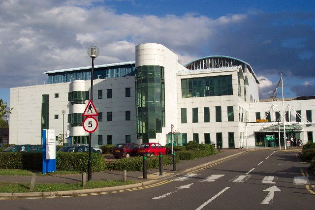 Ashford Hospital. The interior is standard NHS fare, nothing like as modernistic as the exterior.